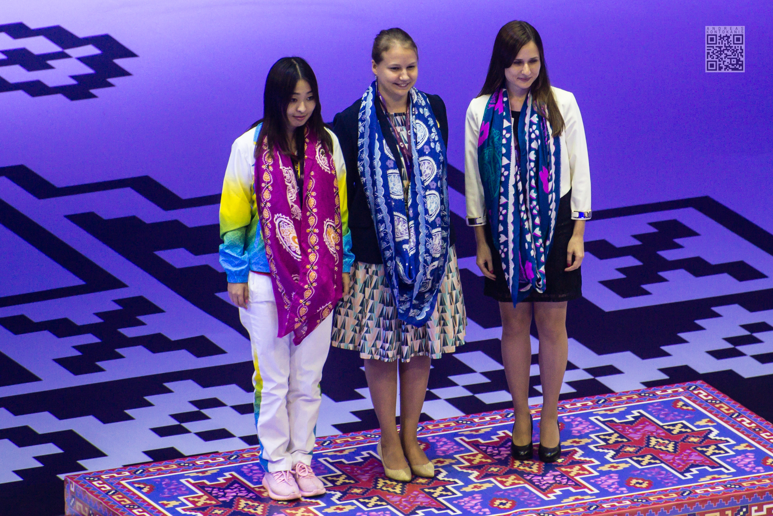 2nd board medalists